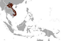 Distribution map for the Pygmy Slow Loris (Nycticebus pygmaeus) range.